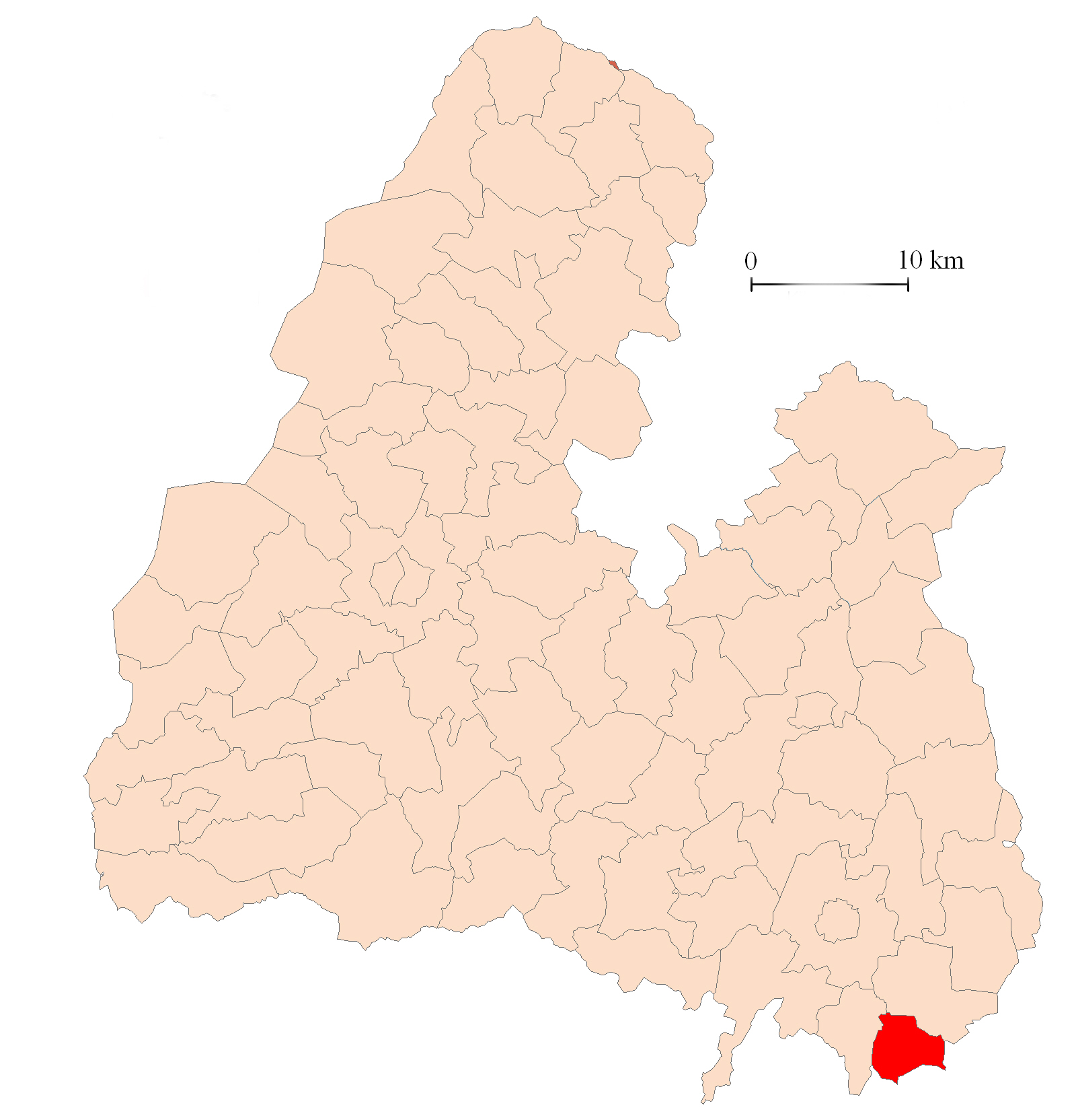 Outline map of North Tipperary, highlighting the extent of Ballymurreen (Ballymoreen) electoral division as it was at the time of the 2011 census